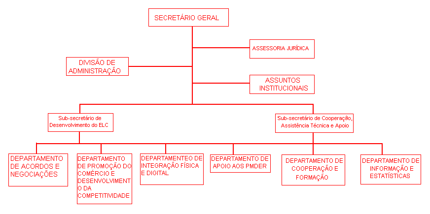 ALADI's Secretariat Organizational Chart